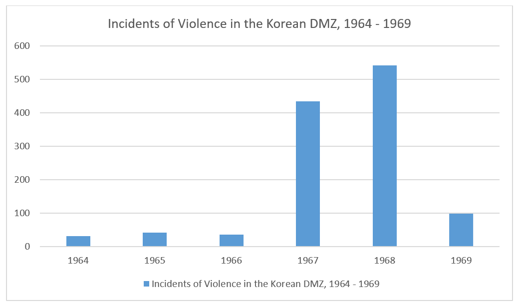 This chart was based upon Table 1 on page 14 and Table 8 on page 149 of Flash Point North Korea: The Pueblo and EC-121 Crises by Richard A. Mobley (Annapolis, Maryland: United States Naval Institute Press, 2003) which was derived from public domain sources cited in this book.